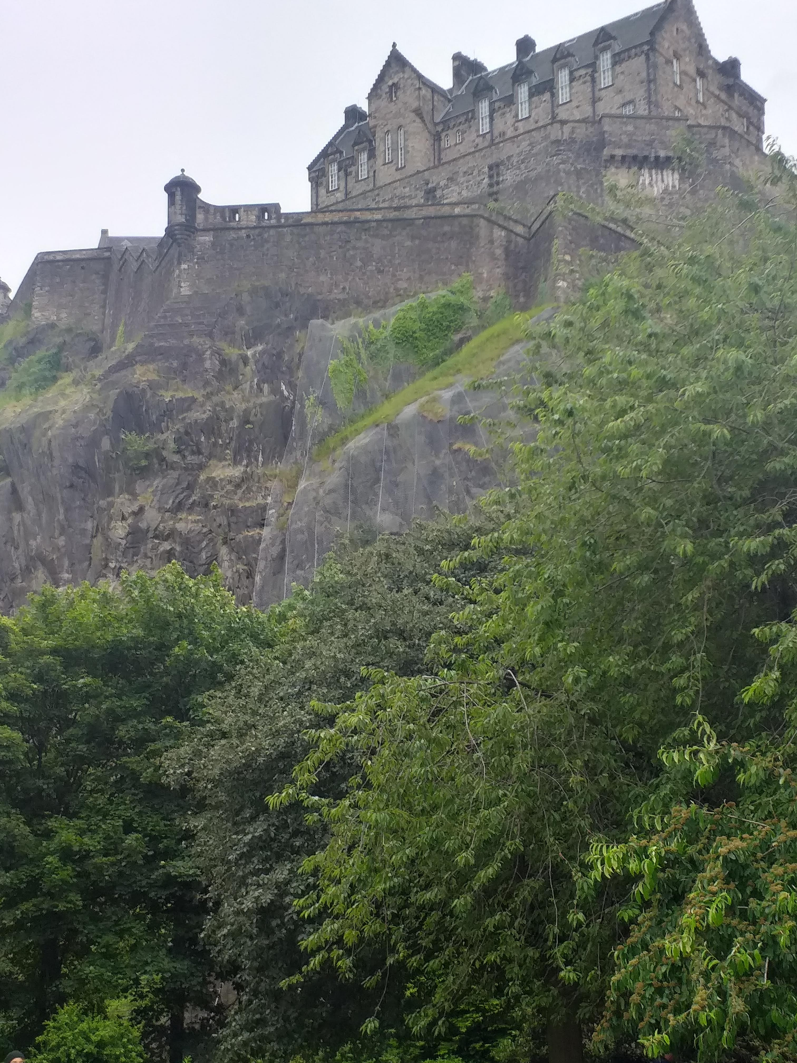 Edinburgh Castle picture taken 0n 21st July 2019